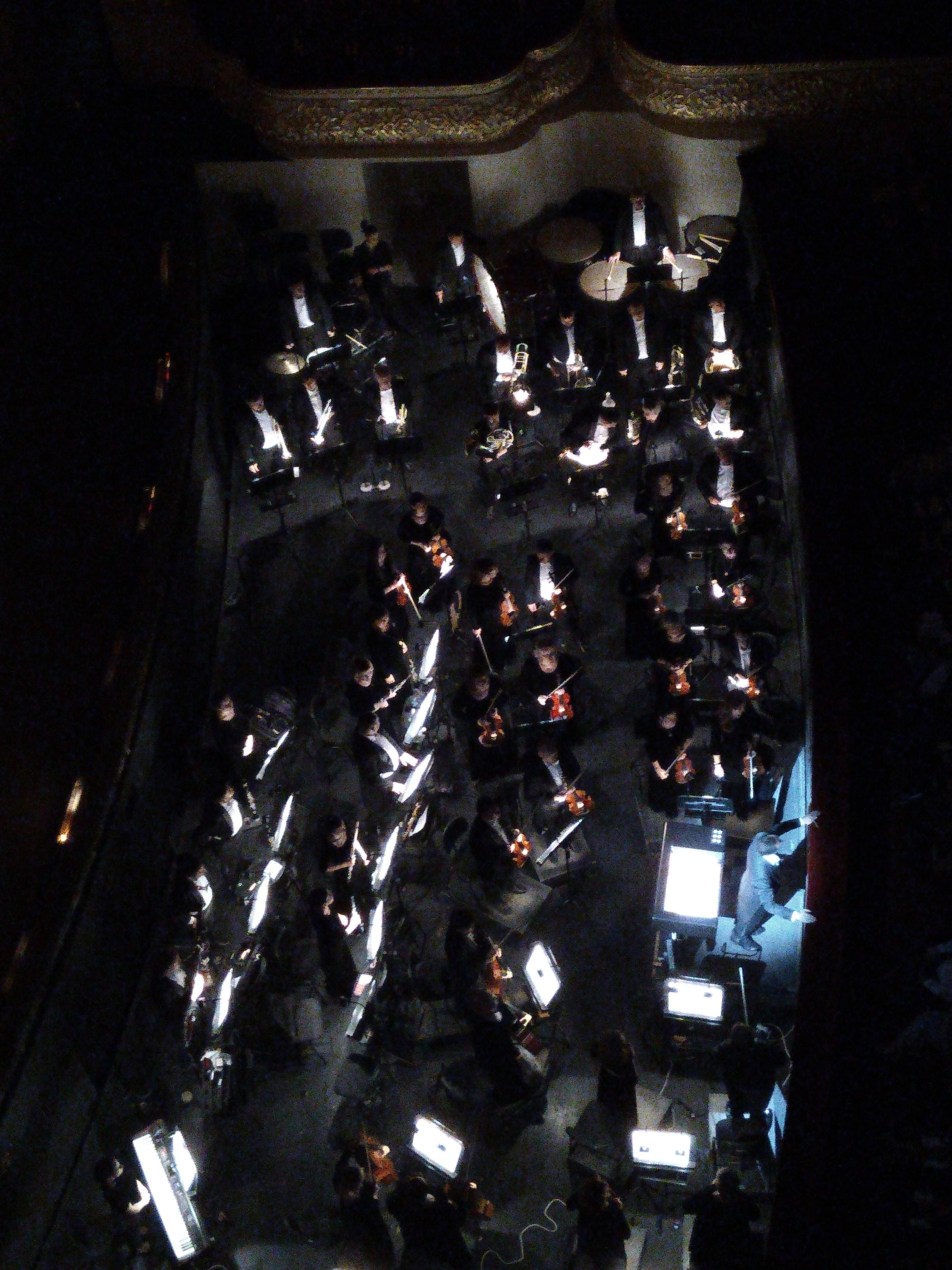 Opera "Giovanna d'Arco" by Giuseppe Verdi of Rostov State Opera and Ballet in Moscow (Bolshoi Theatre).Carlo VII, King of France: Ilya GovzichGiovanna: Natalia DmitrievskayaGiacomo, shepherd and father of Giovanna: Pyotr MakarovDelil, a French officer: Kirill ChursinTalbot, an English Commander: Boris GusevConductor: Andrei Ivanov